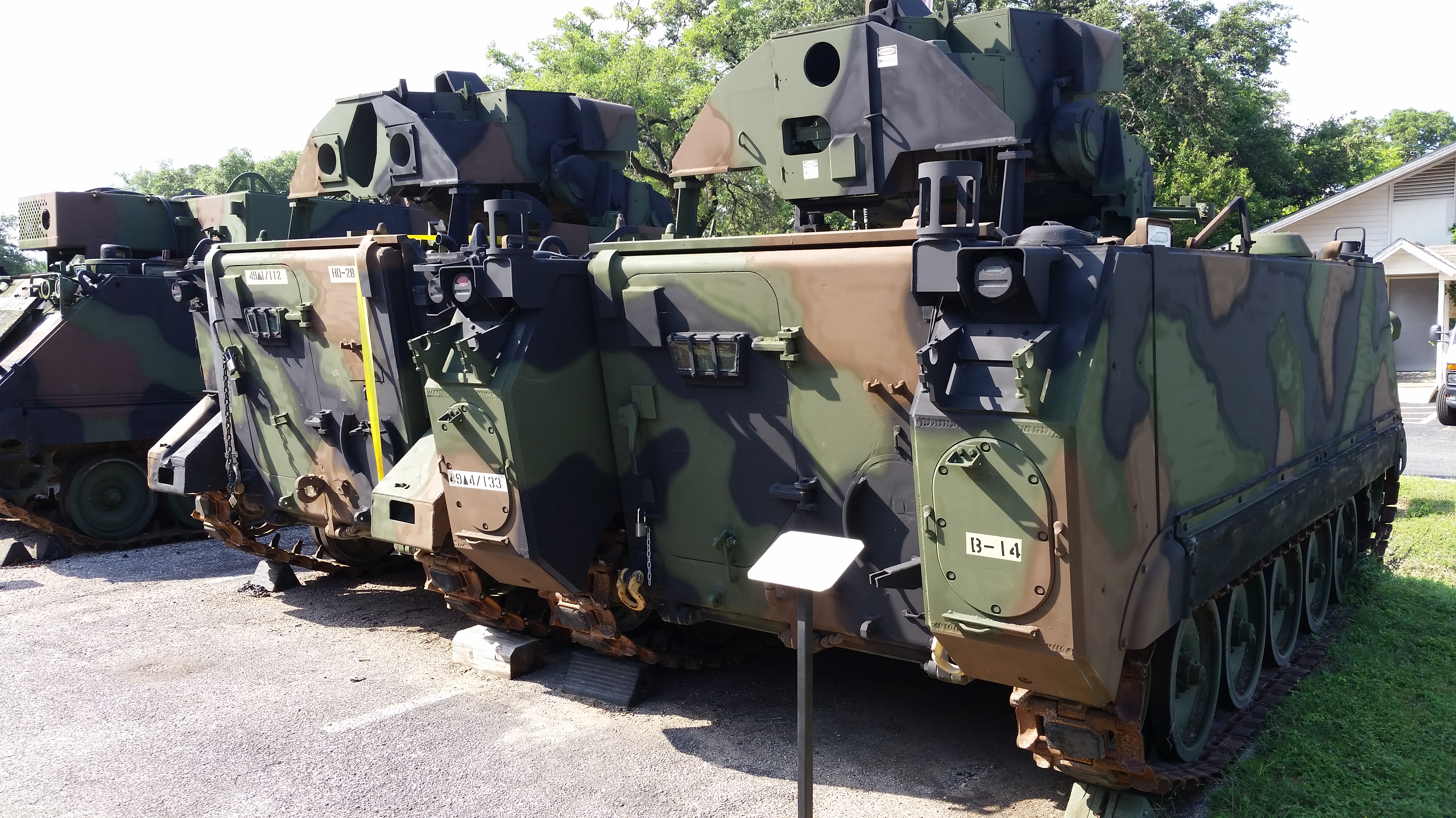 M981 FIST-V rear Texas Military Forces Museum